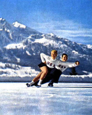 Lucille Ash and Sully Kothman at the 1956 Winter Olympics in Cortina d'Ampezzo, Italy. Author unknown. Photo from . Per below, Italian copyright expired in the 1970s, therefore not copyrighted in the US.